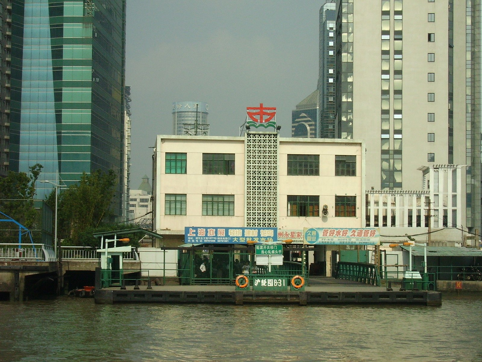 Yangjiadu Ferry